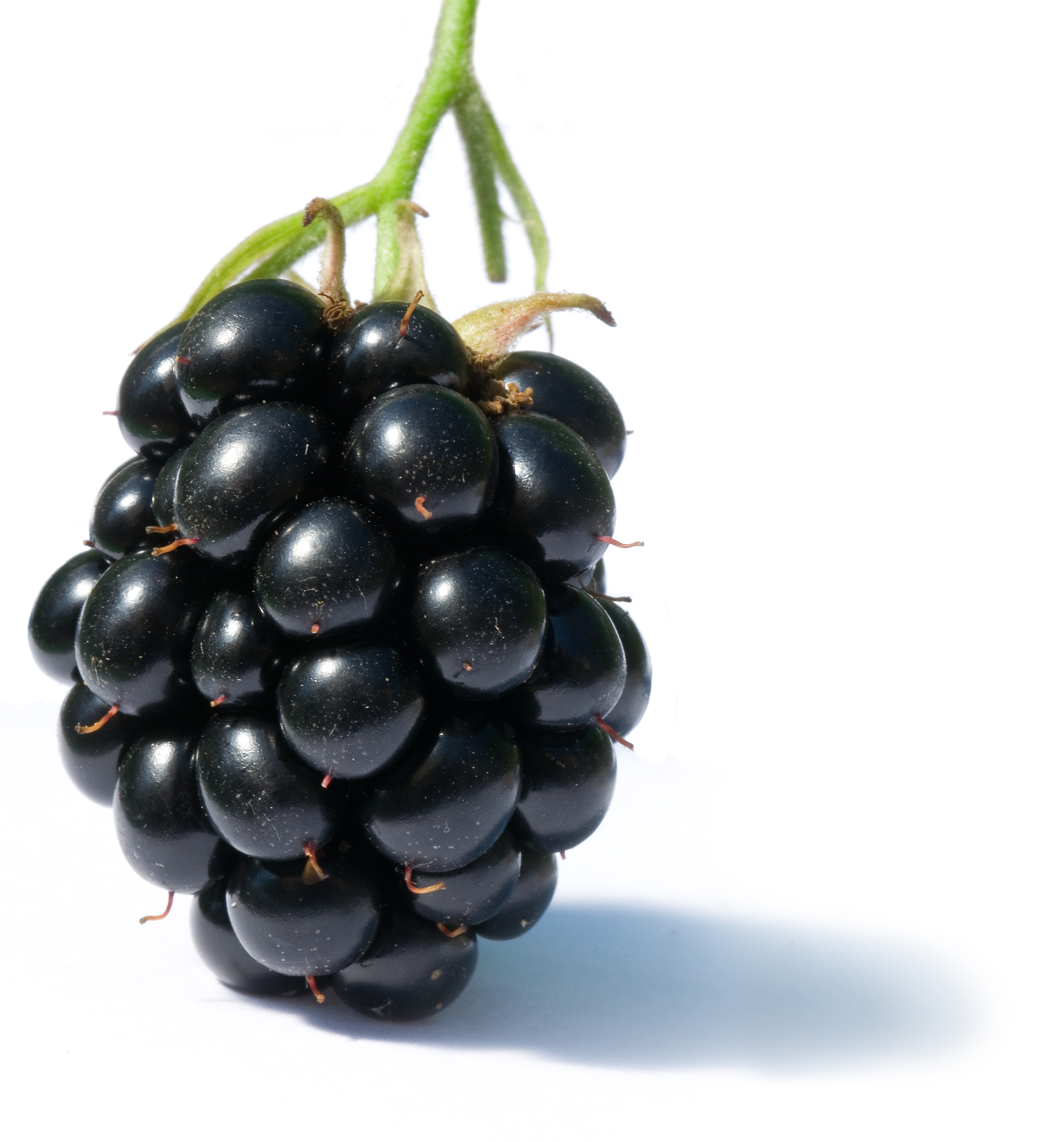 Blackberry